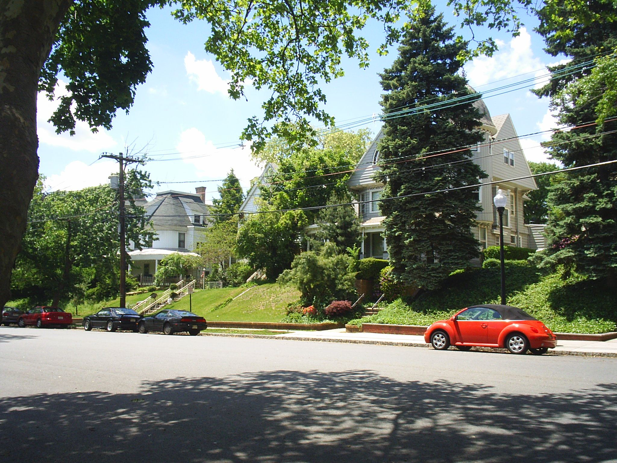 These are some of the many Victorians in the waterfront. These homes sit on High Street.